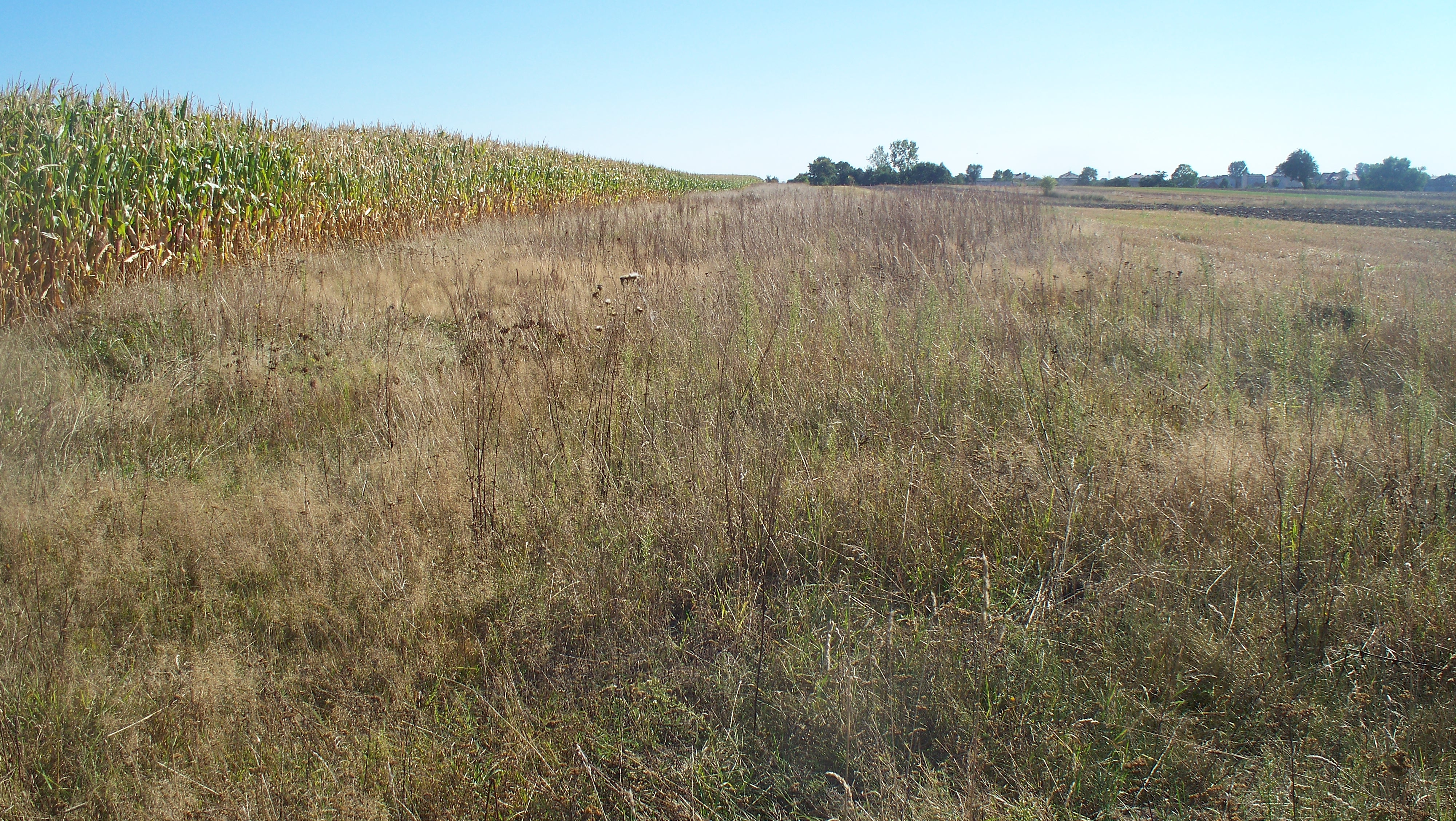 fallow land